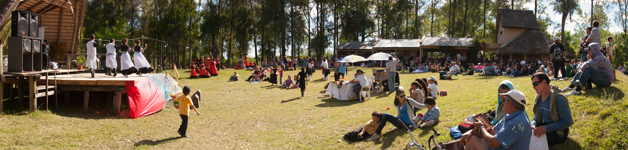 Fiesta, in a park along the river Olimar, city of Treinta y Tres, Uruguay